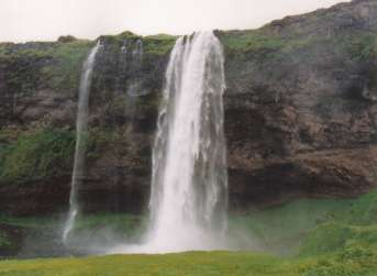 Seljalandsfoss, waterfall on Iceland.